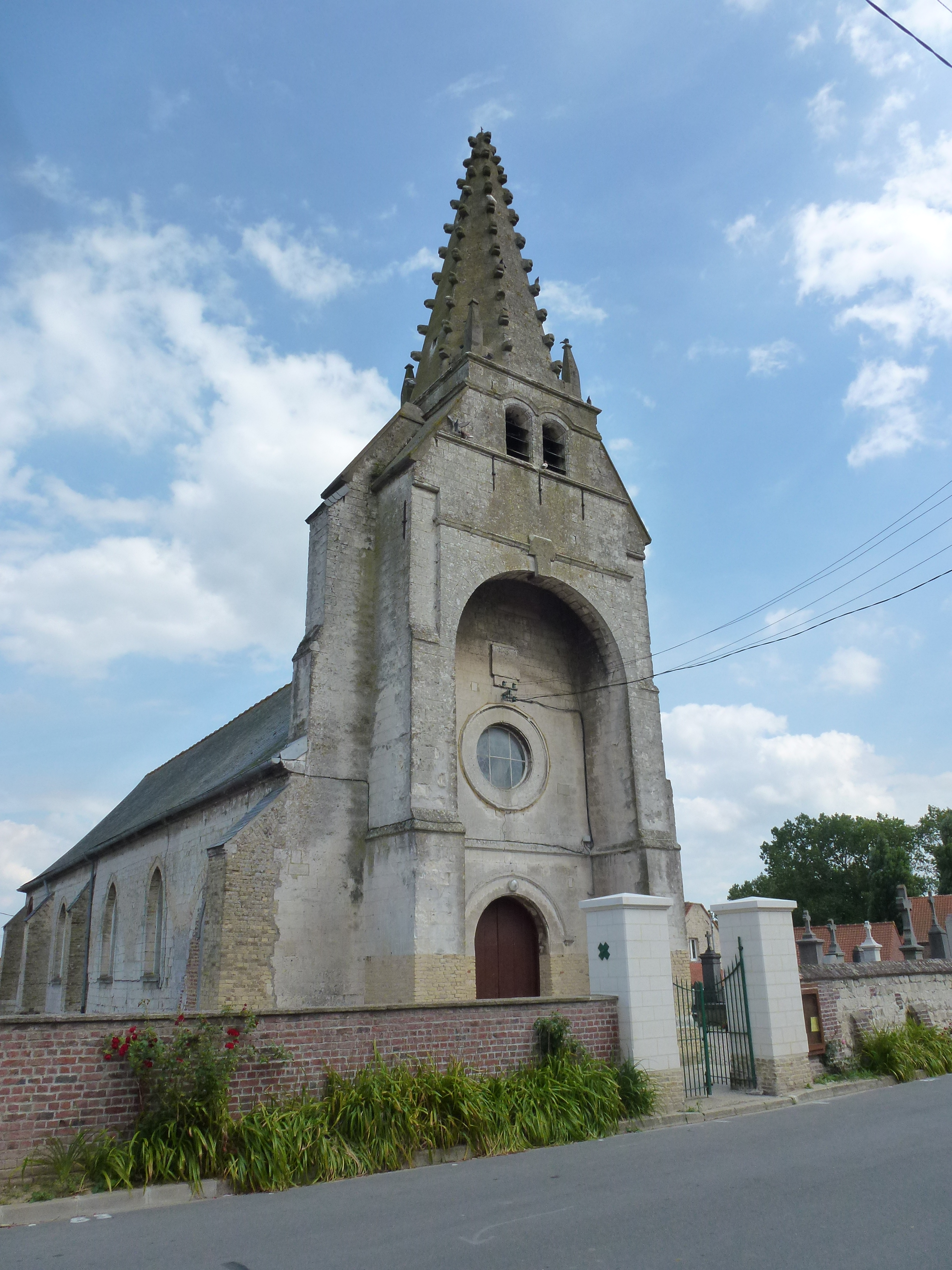 Bayenghem-lès-Éperlecques (Pas-de-Calais) église Saint-Wandrille